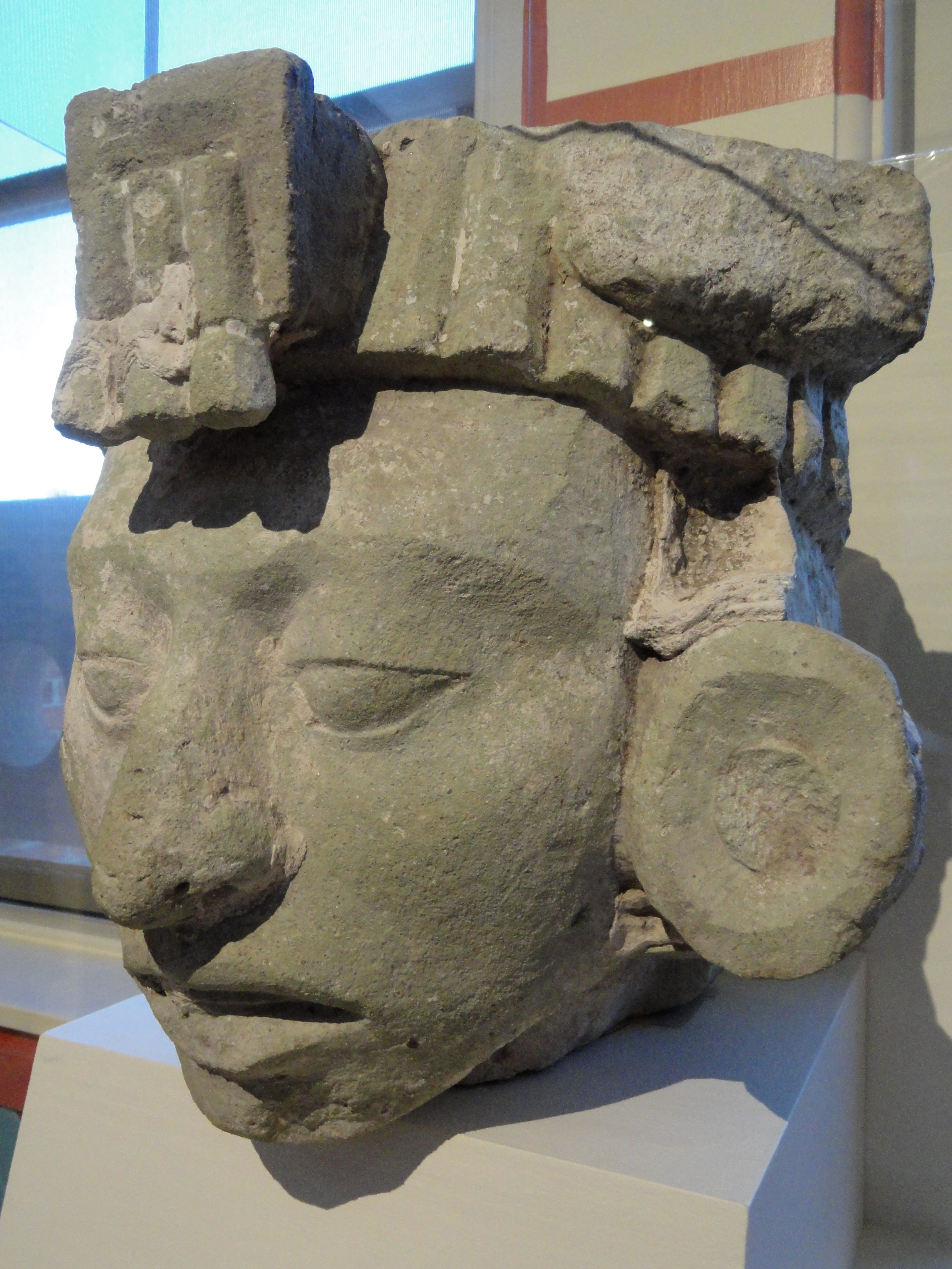 Head, Structure 20, Copán, Honduras. Exhibit from the Meso-American Collection, Peabody Museum, Harvard University, Cambridge, Massachusetts, USA. Photography was permitted without restriction; exhibit is old enough so that it is in the public domain.